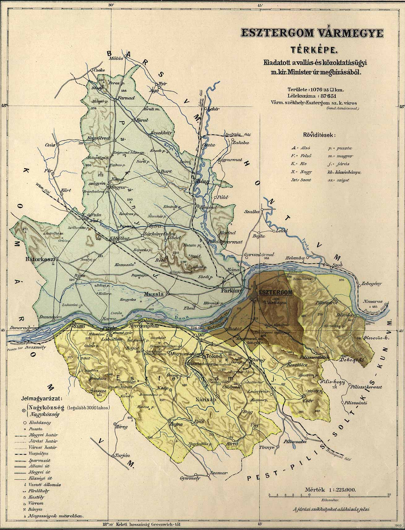 Administrative map of the county of Esztergom in the Kingdom of Hungary